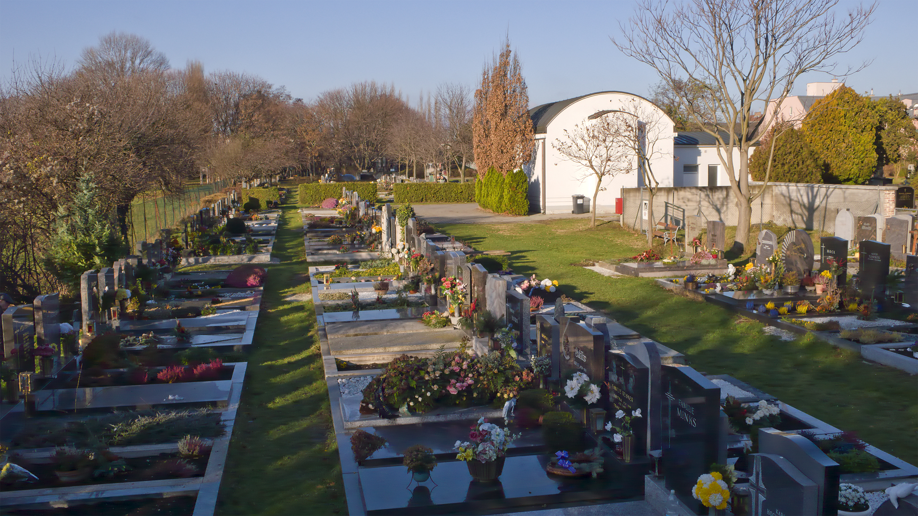 Vienna Liesing: Friedhof Siebenhirten